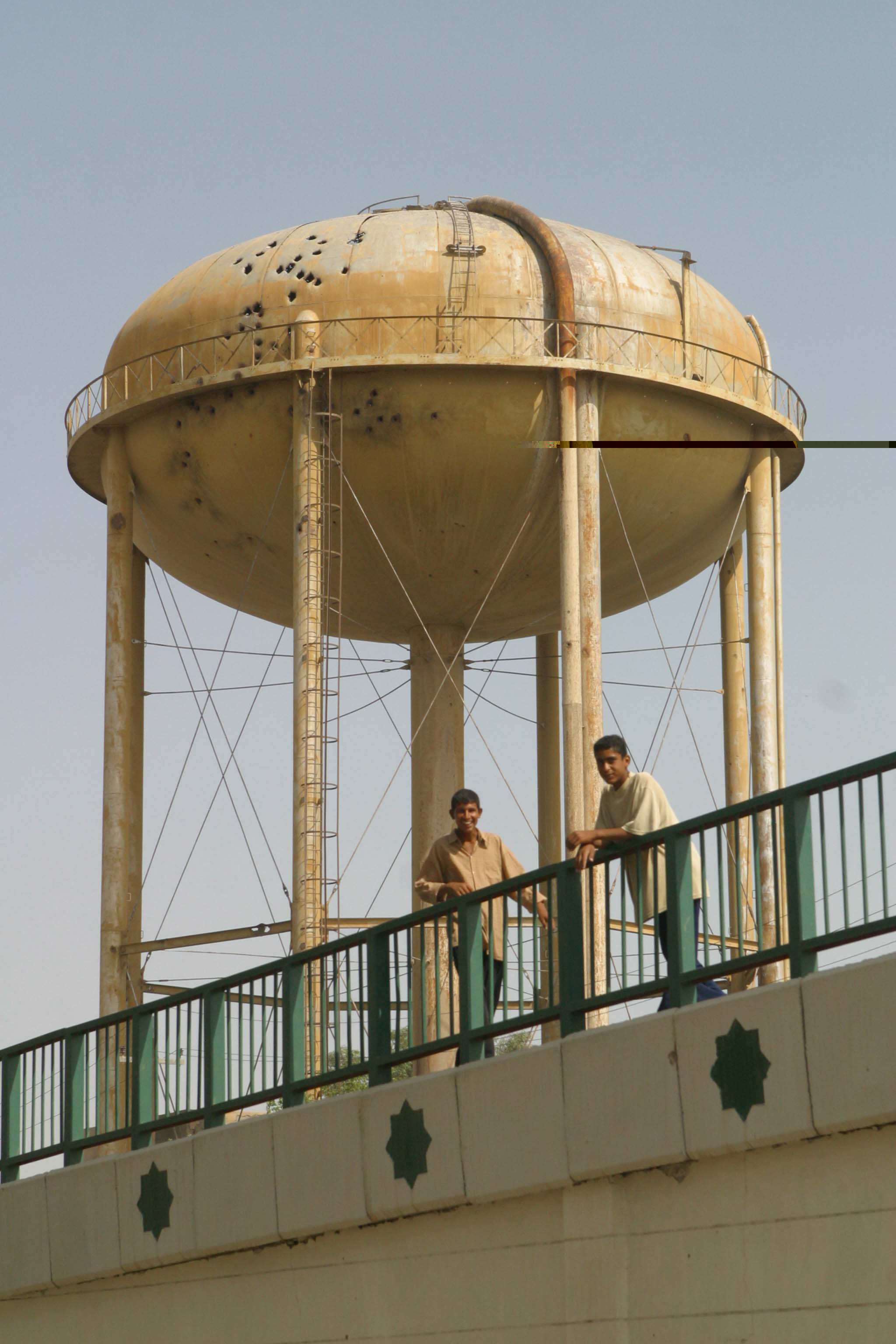 An unusable water tower that was damaged during the war in Nasiriyah. Distribution of potable water remains a big problem for the citizens, as existing water lines are often contaminated because of a high water table and the presence of open sewage.